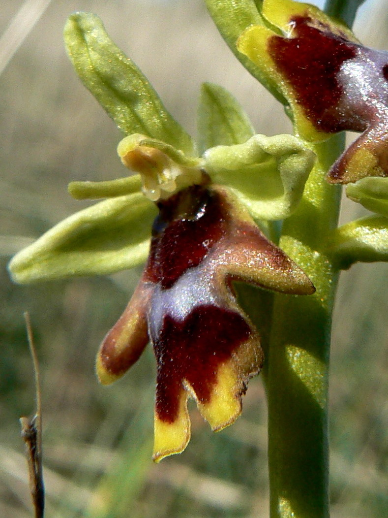 Causse de Larzac, France